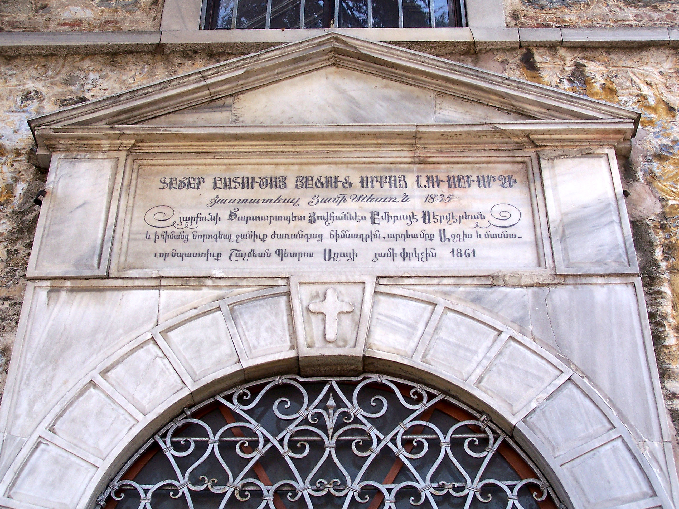 Front inscription on Surp Krikor Lusavoriç Kilisesi in Kuzguncuk-Üsküdar